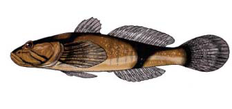 The illustration of the Beardless tadpole goby (Benthophiloides brauneri) from the monograph of Beling & Iljin, 1927